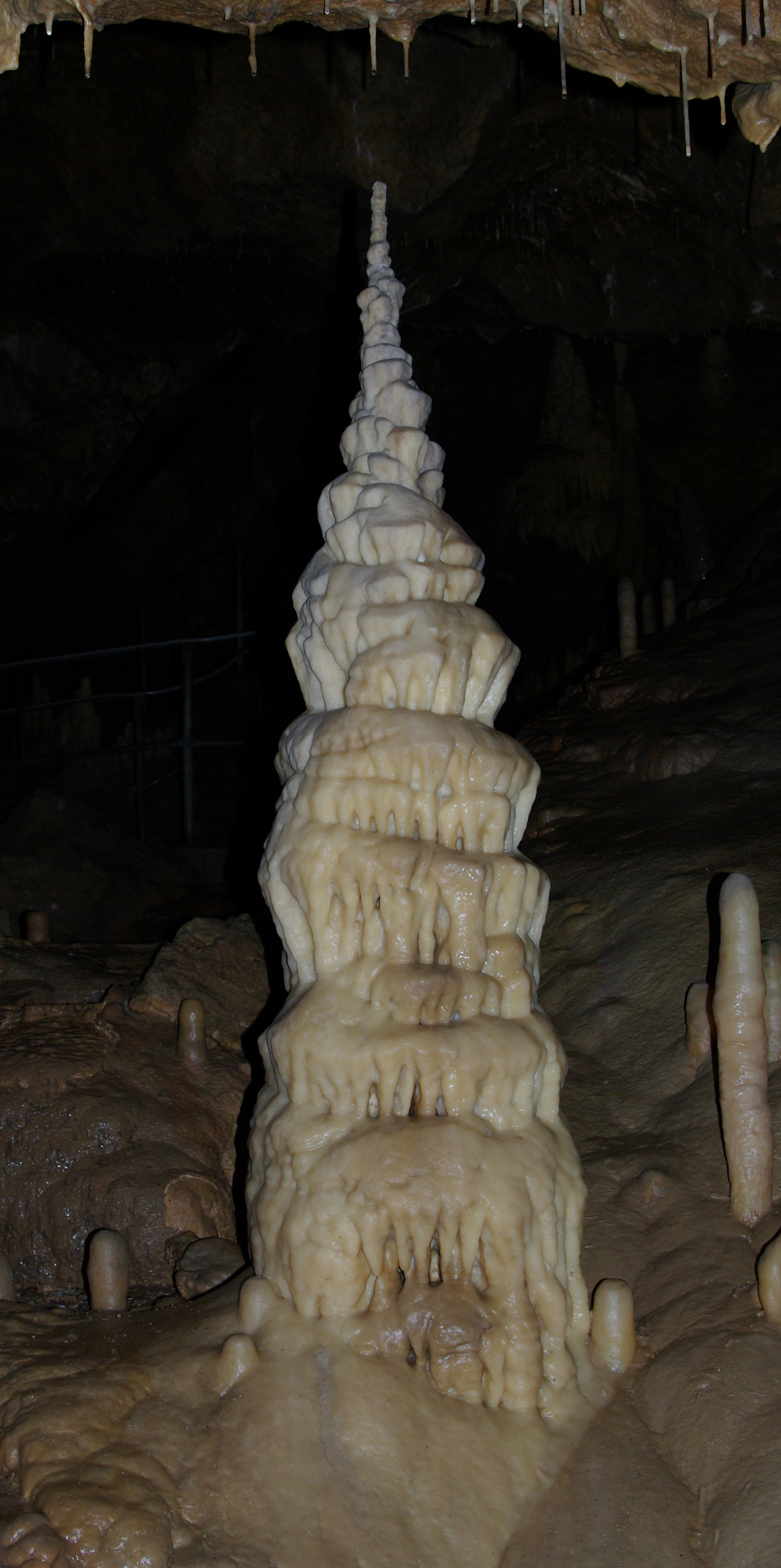 Devil's Cave (near Pottenstein)